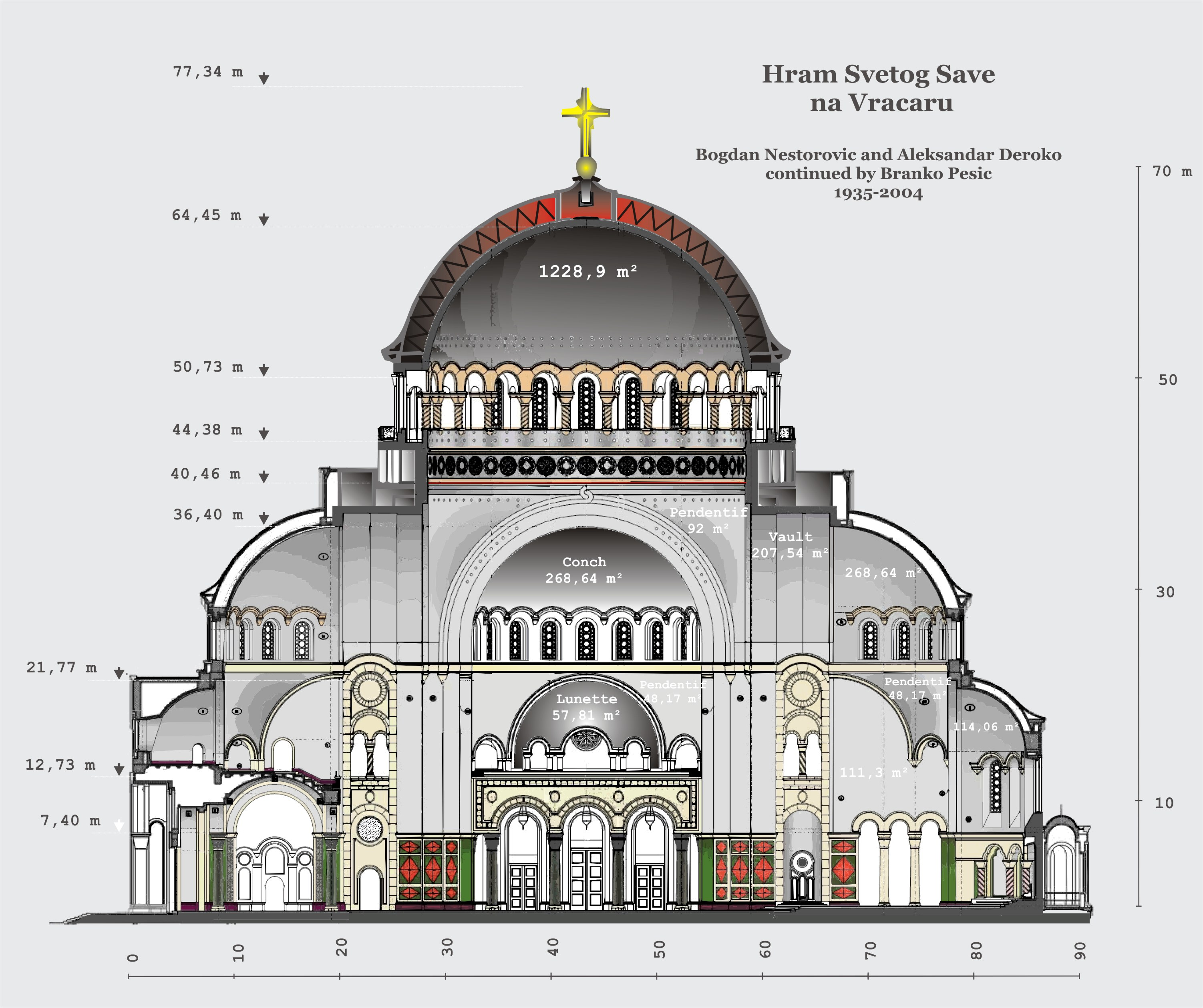 Aufriss und Mosaikflächen Dom des Heiligen Sava